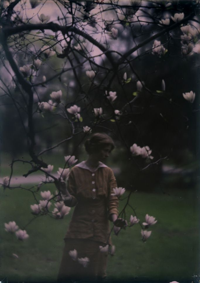 Edna St. Vincent Millay at Mitchell Kennerley's house in Mamaroneck, New York